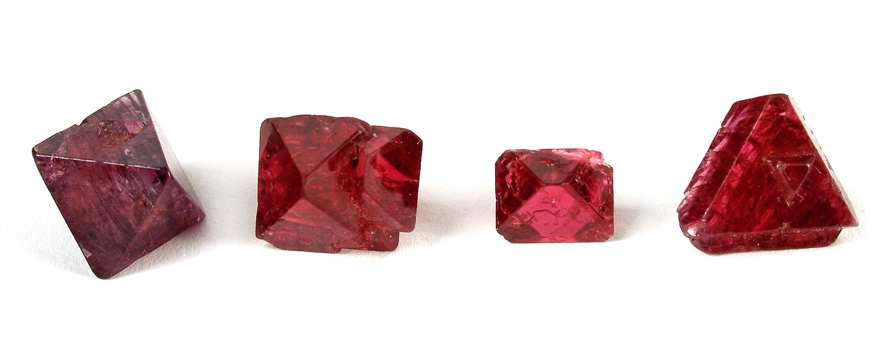 Spinel Locality: Pein Pyit (Painpyit), Mogok, Sagaing District, Mandalay Division, Burma (Myanmar) (Locality at ) Size: thumbnail, various Spinel (set of crystals) This is a choice set of very carefully selected gem spinel crystals, from the heyday of Mogok exports before the current embargo (late 1990s). Combined weight is about 10 grams, so you know these are not small�all are full thumbnails, each one choice and worthy on its own merits. All are perfect floaters. The rightmost is a macle twinned crystal, which looks like a triangular crystal, 1.5 cm on edge. Second from right is a VERY GEMMY, jewel-like, perfect octohedron, 1 cm on edge (longer on the diagonal) of top quality, cherry-red color, valued $750. The two left crystals are octohedral floaters as well. The leftmost is purple/lavender color , though it is hard to photograph it as such with accuracy for some reason (valued $1000 for rarity of the color , and size /gemminess). The crystal next to it, is a doublet of gem octohedra with the classic cherry-red color (valued about $750).. Sold as a set, and frankly hard to reassemble today in a diminished market of Mogok exports